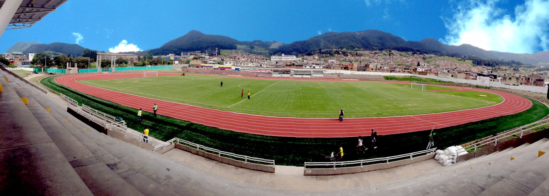 imcrdz